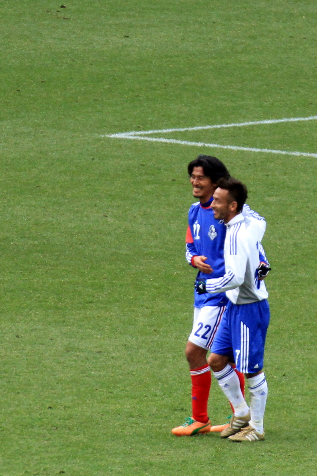 Nakazawa and Nakata chat during the tribute match for Naoki Matsuda in January 2012.